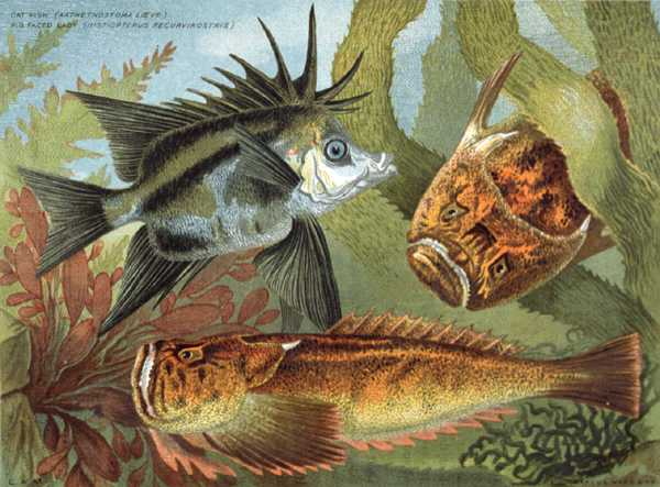 "Catfish" Tasmanian Museum and Art Gallery